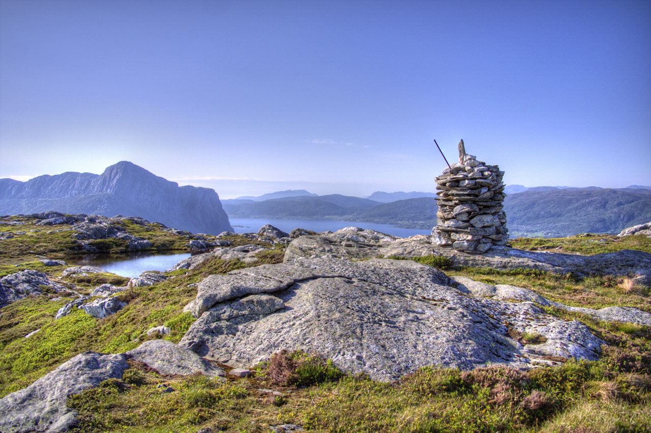 Kolgrovheia Hyllestad – Canon EOS D30 Raw. Photomatix